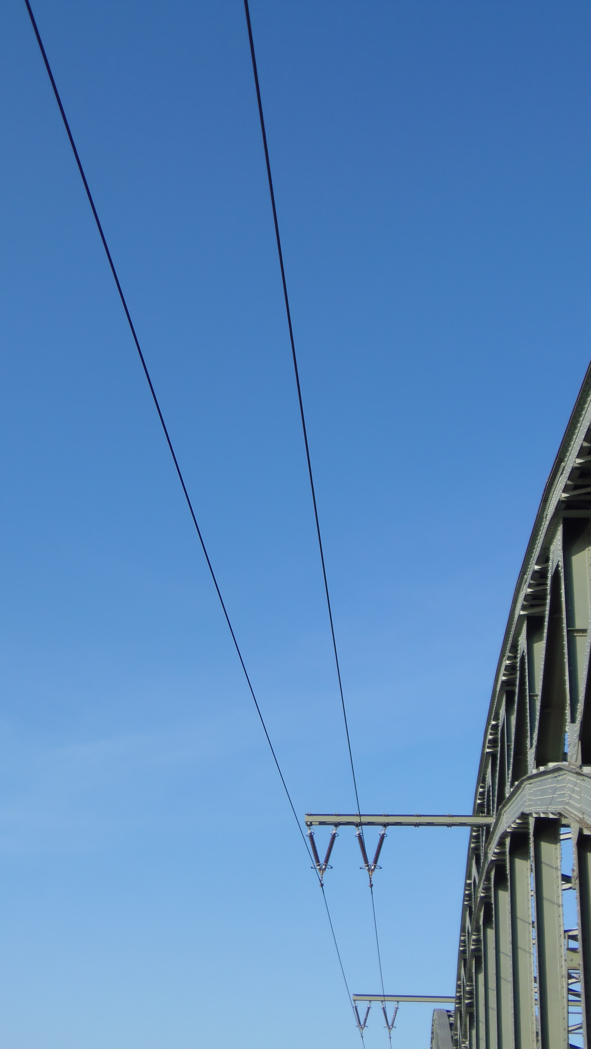 Traction current power line Cologne–Sindorf at the Südbrücke in Cologne